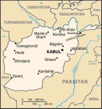 CIA map of Afghanistan with Norwegian caption